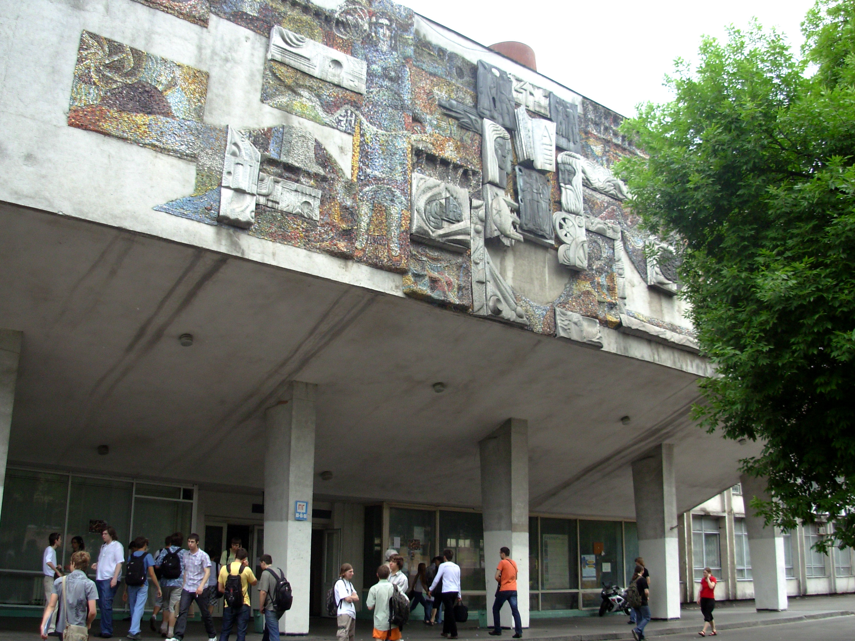 Building #18 of Kyiv Polytechnic Institute